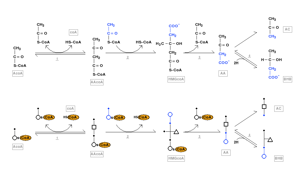 Ketogenesis intermediates using Fischer representation comparing to polygonal model. The last form is easier and faster to read and write, and shows with clarity each change of the intermediates in the reactions.